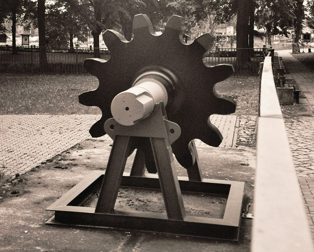 Drive rack pinion of the boat lift in Niederfinow, Germany